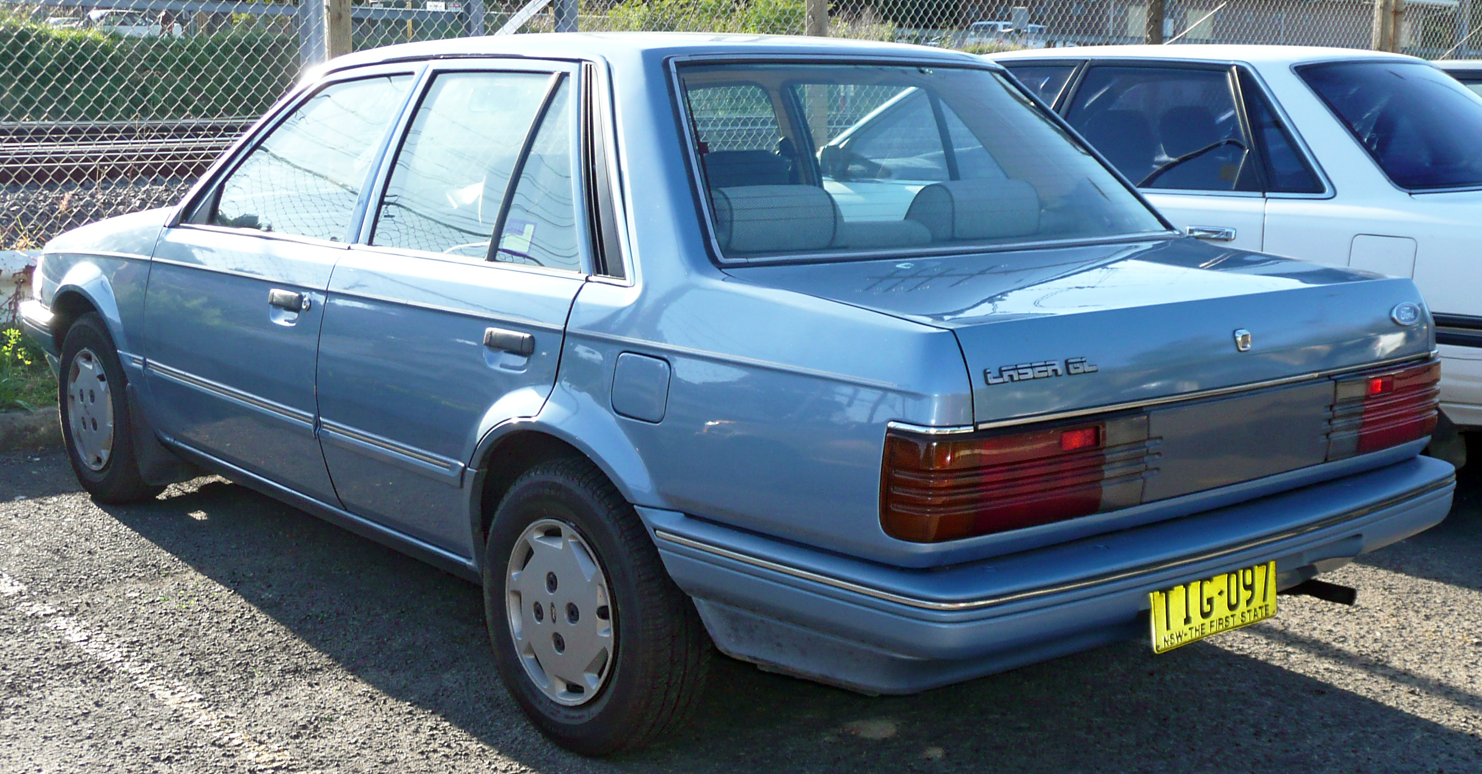 1988 Ford Laser (KE) GL sedan. Photographed in Sutherland, New South Wales, Australia.